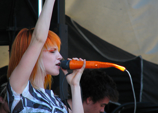 Hayley Williams of Paramore playing at the Van's Warped Tour, 2007 in Vancouver, Thunderbird Stadium at UBC.